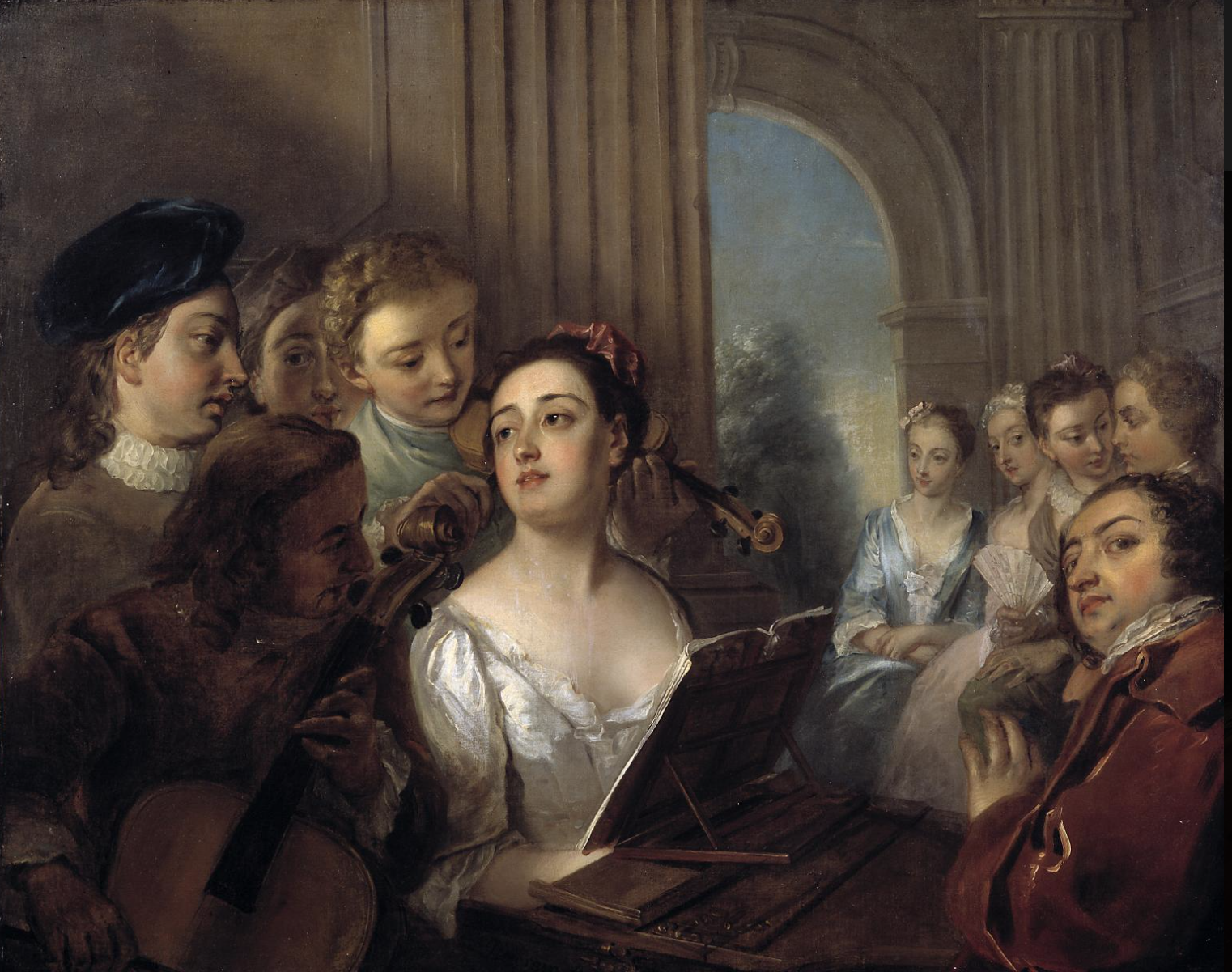 'A Music Party' oil on canvas, by Philip Mercier (1689-1760)